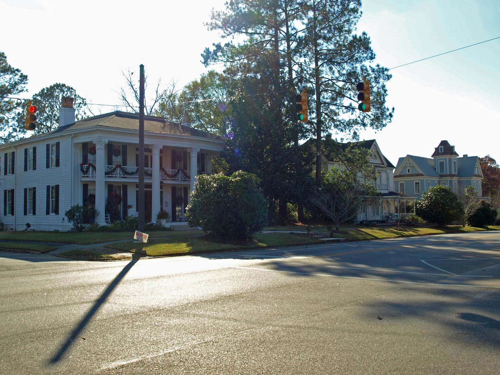 218, 212, 206 East Commerce Street in Greenville, Alabama, part of the Commerce Street Residential Historic District